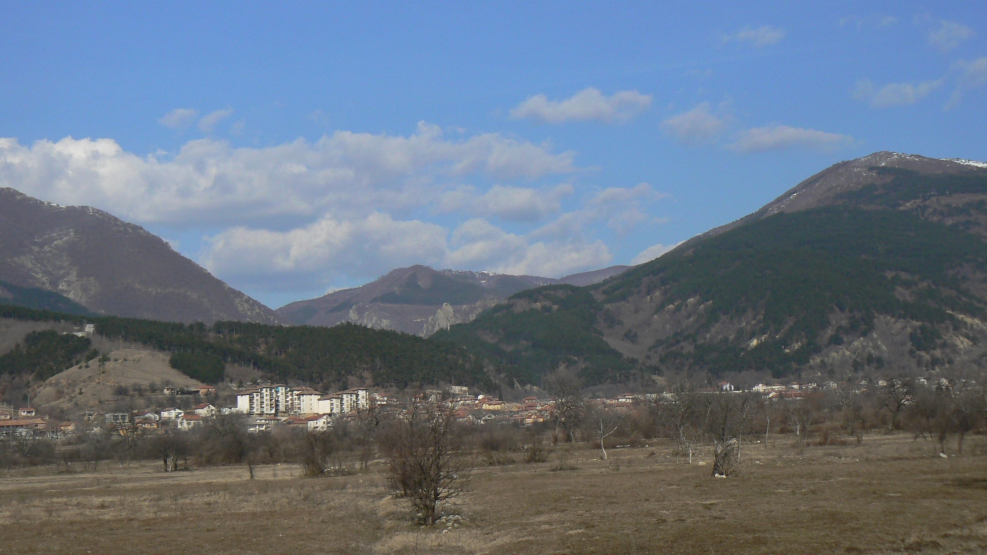 View towards the town of Muglij, Bulgaria